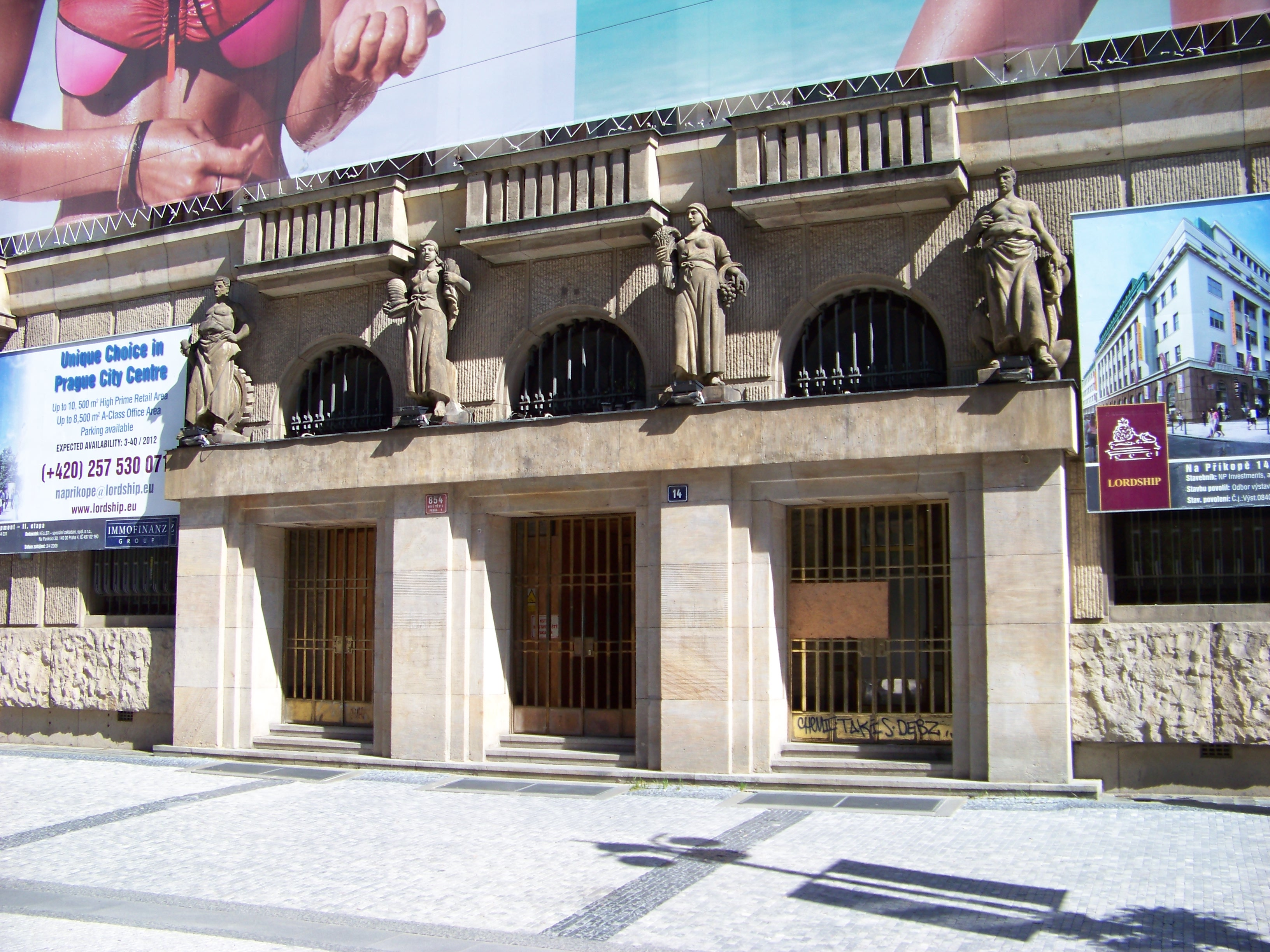 Prague-New Town, the Czech Republic. Na příkopě 854/14.